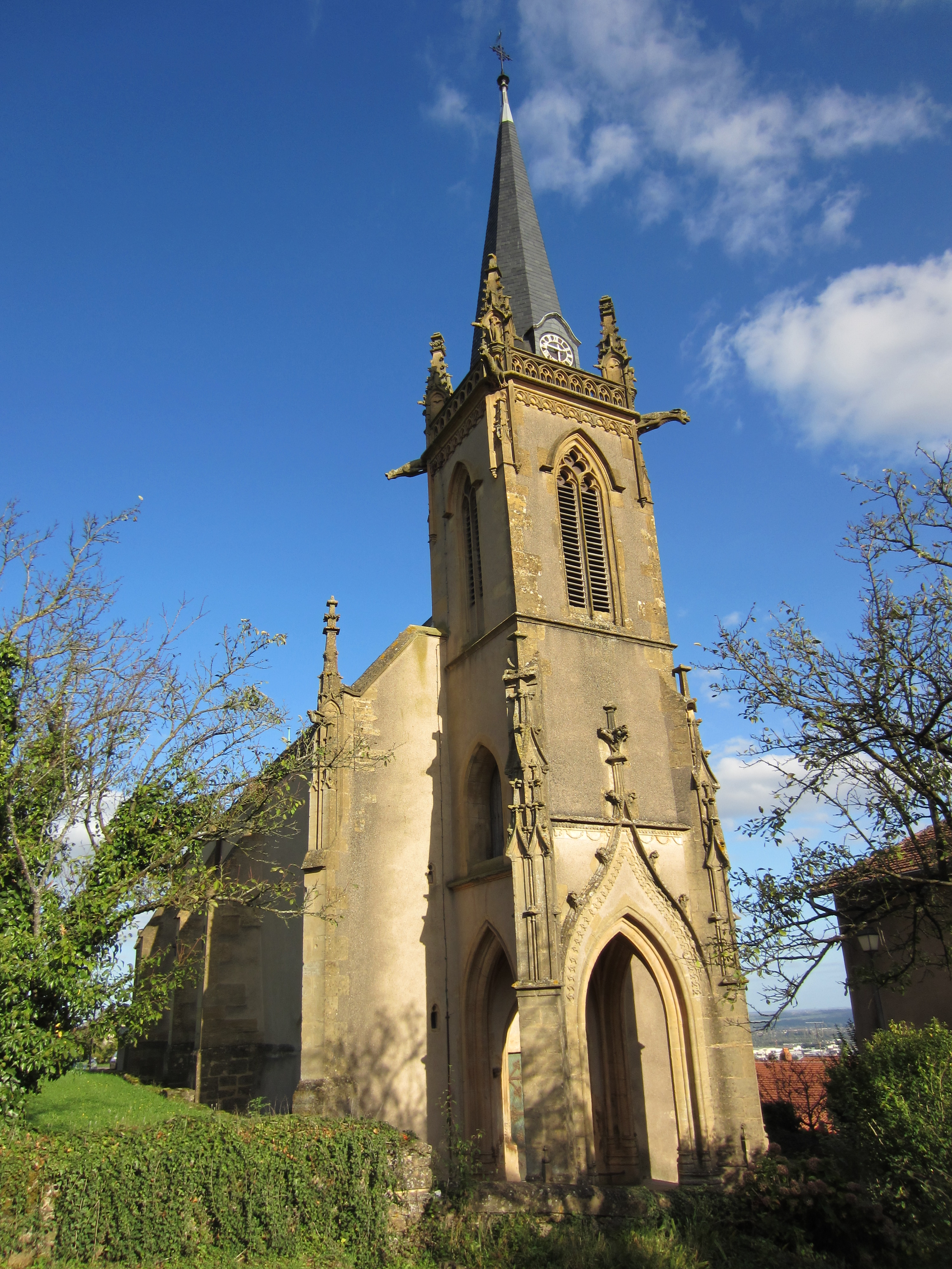 Description eglise Notre Dame Feves Date15 September 2011Sourcemon appareil photoAuthorAimelaimePermission (Reusing this file) eglise Notre Dame Feves